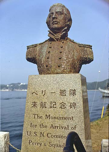 Bust of Commodore Matthew Perry, Shimoda, Shizuoka Prefecture, Japan.